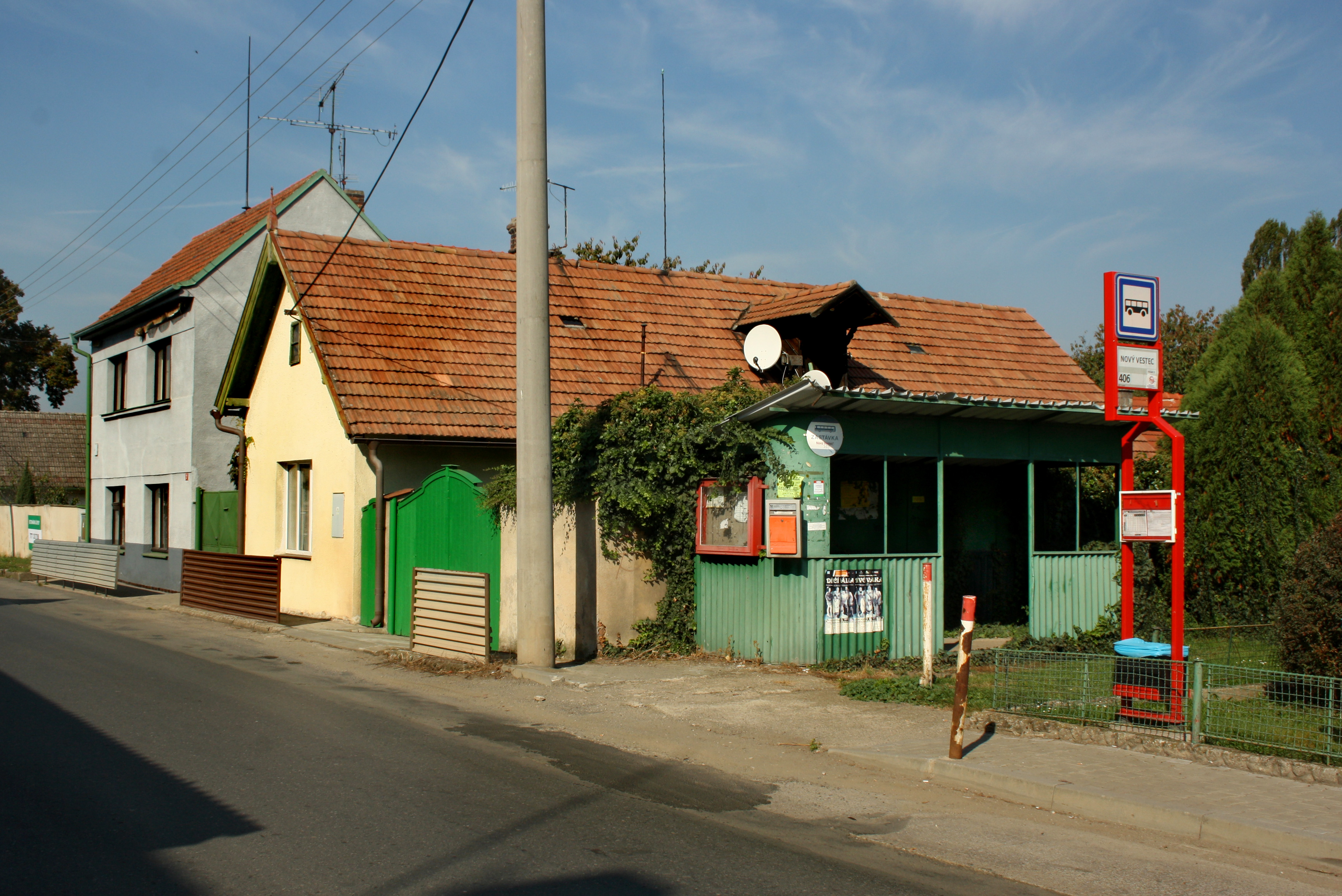 Bus stop in Nový Vestec, Czech Republic